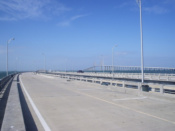 taken by me, Mikereichold 21:08, 17 January 2006 (UTC), on Jan. 17, 2006 at the Sunshine Skyway Fishing Pier State Park on a cloudy day. Facing north from the south span. New Sunshine Skyway (Bob Graham) Bridge appears on viewer's right.